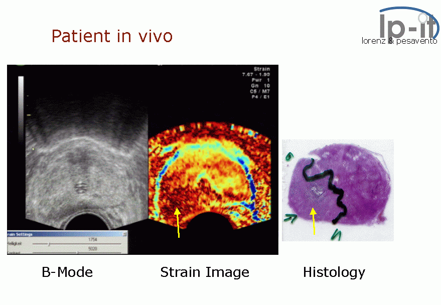 The image shows a detected prostate cancer by elastography: Left Sonographic Image, middle Elastography, right Histogram after resection of the gland